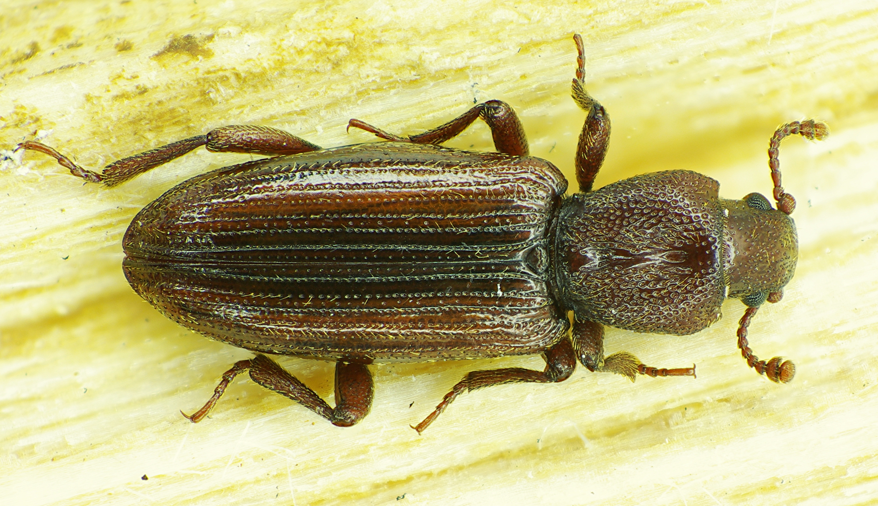 Bothrideres bipunctatus from Hungary, village Kötelek under bark of poplar at 2012-06-21